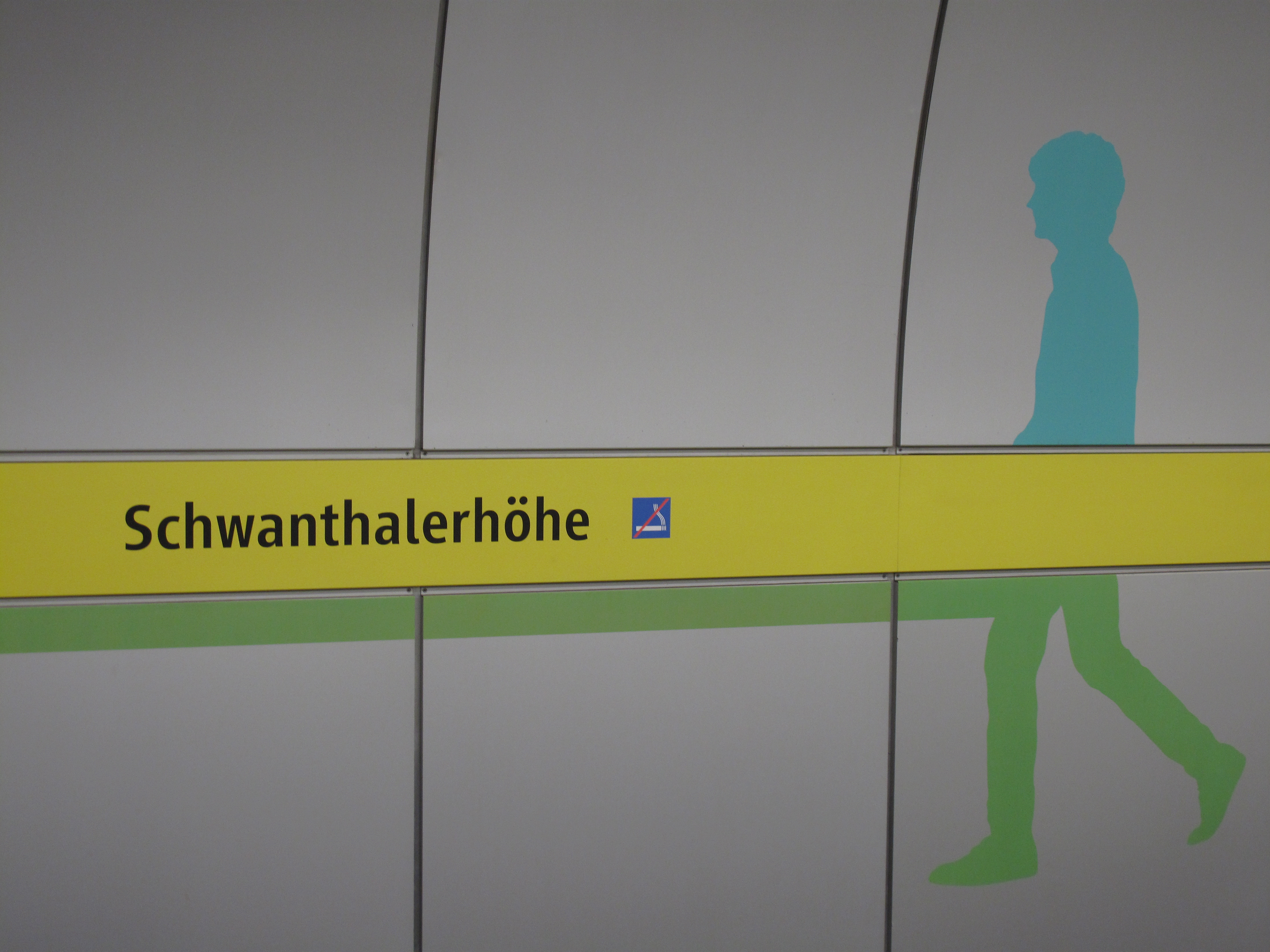 The metro-station "Schwanthalerhöhe" in Munich (district: Schwanthalerhöhe - also called Westend) for the metro-lines U4 and U5.